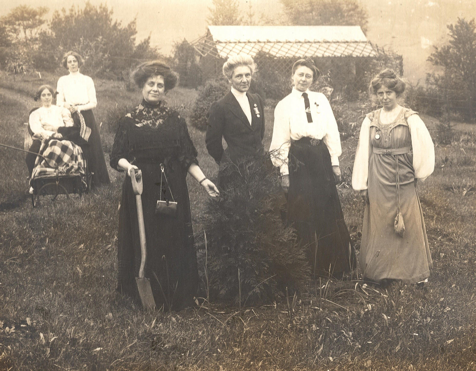 Jennie and Kitty Kenney, Florence Haig, Marion Wallace-Dunlop, Mary Blathwayt and Annie Kenney. This picture was taken by Colonel Linley Blathwayt and was stored on glass negatives. The Blathwayt's home of Eagle House way the home of Linley, Emily and Mary Blathwayt who all actively supported the suffragette cause. Nearly all the preeminent UK suffragettes stayed with them and these photos and dozens of trees were planted to commemorate their visits. Col. Linley Blathwayt took these pictures between 1908 and 1912. He died in 1919. The pictures are made available in larger formats by .